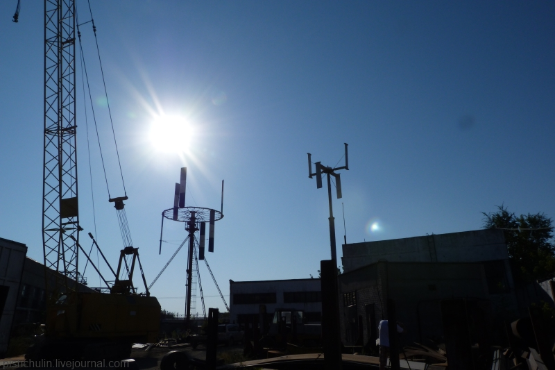 Wind turbines in Chelyabinsk